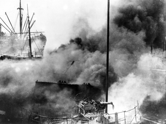 The burning of an auxiliary Cruiser in the harbour at Hanko by the Red Guards April 1918.